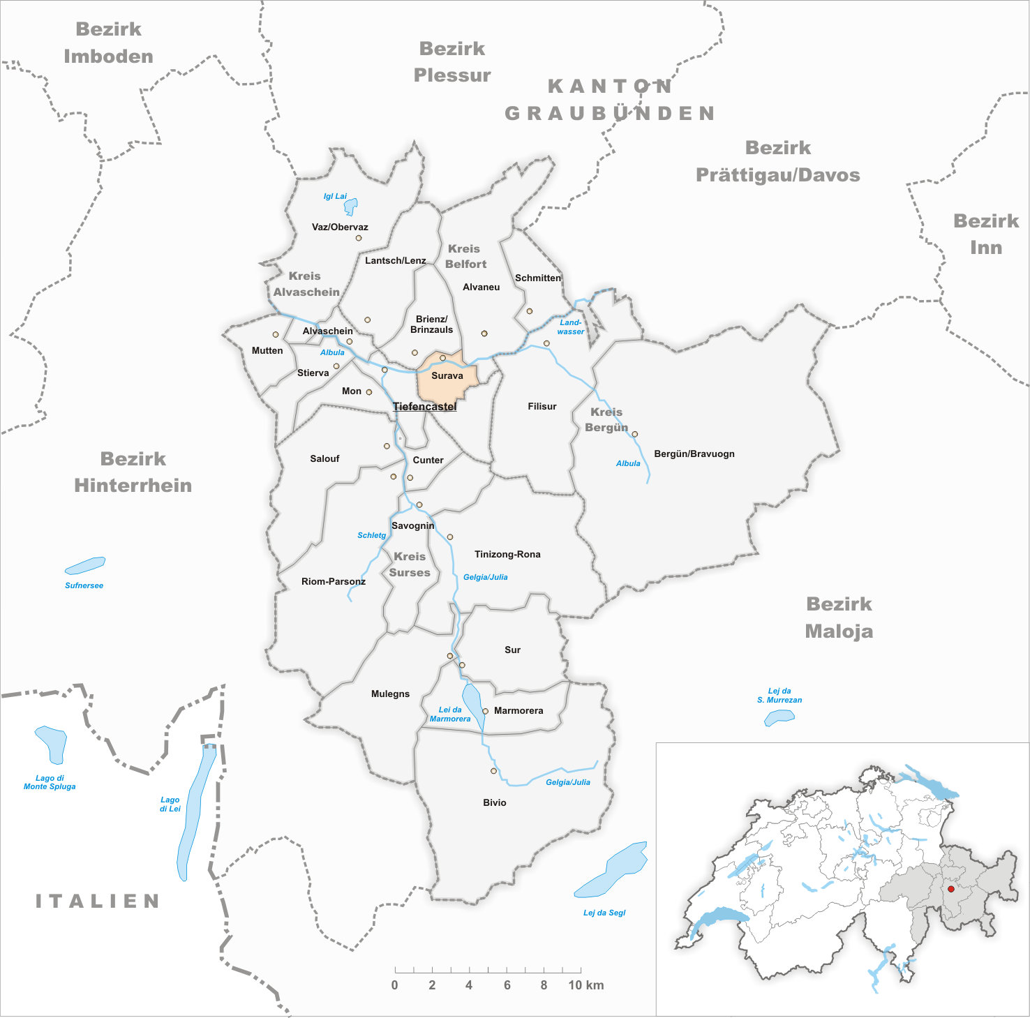 Municipality Surava